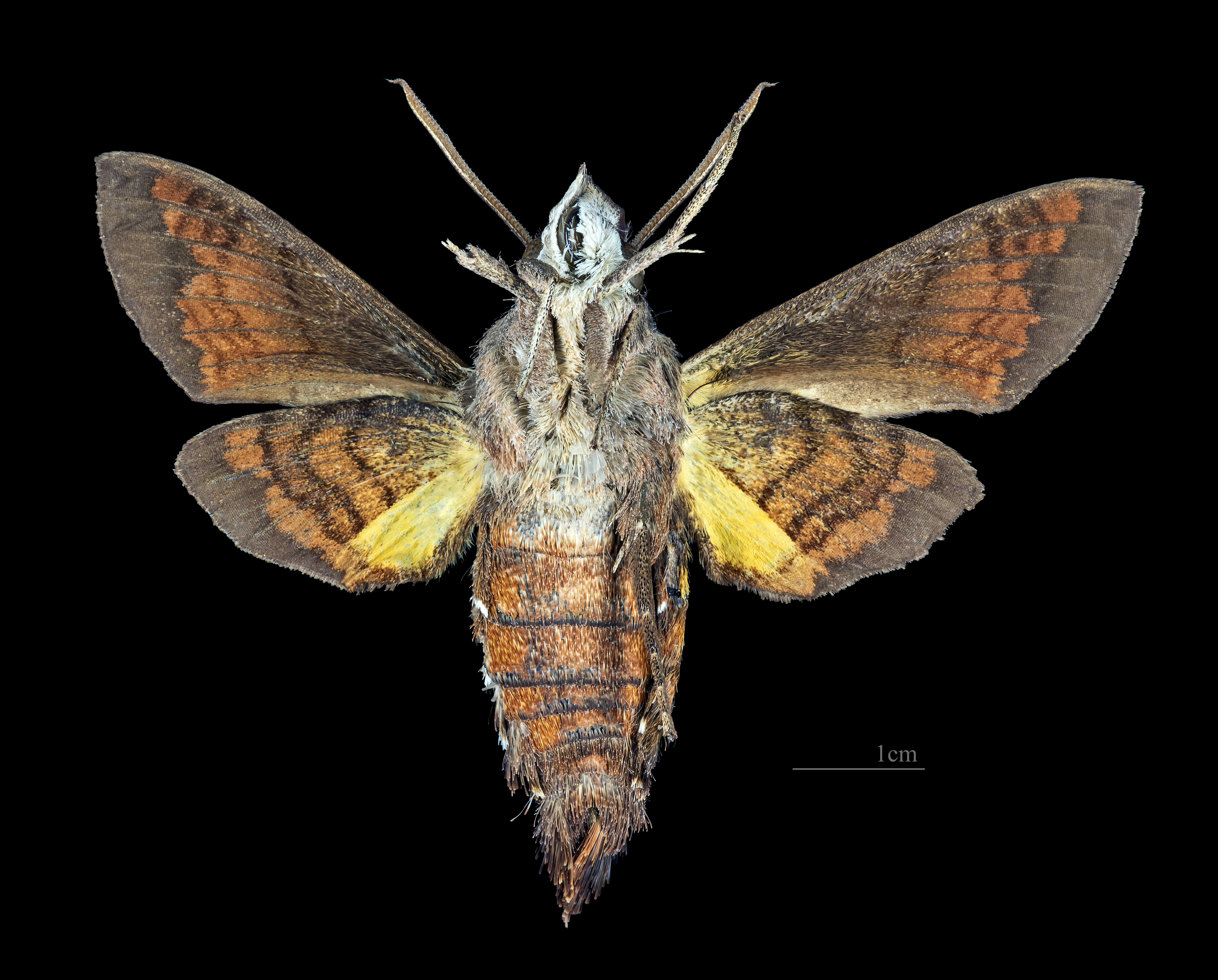 Macroglossum ungues - △ Ventral side Collection of the Mathematician Laurent Schwartz